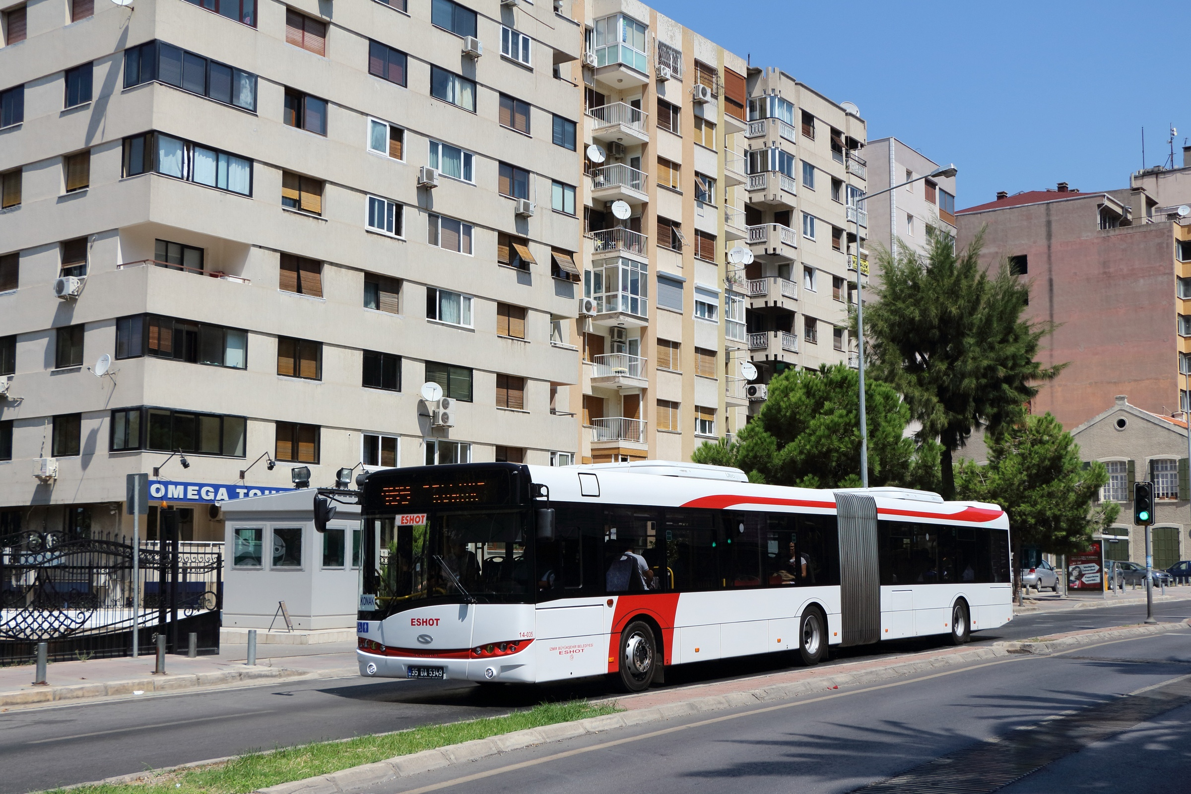 Bus in Izmir, Turkey (Solaris Urbino 18)